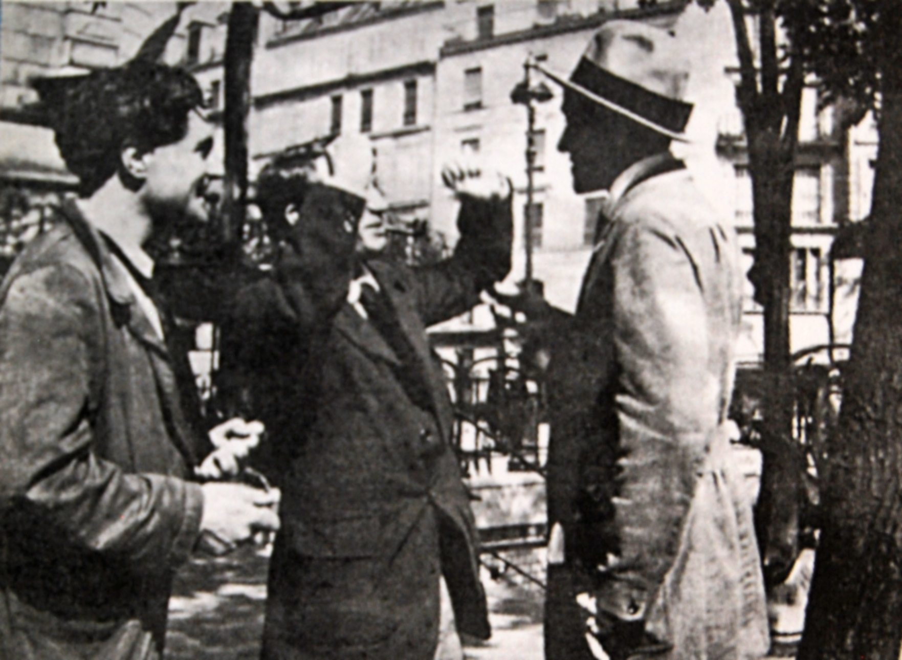 Amedeo Modigliani, Pablo Picasso and Andre Salmon in an old image taken by Jean Cocteau in Montparnasse, Paris in 1916.